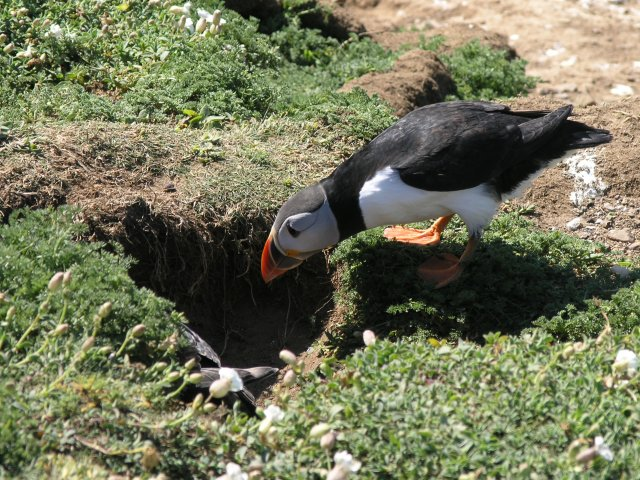 A puffin and her burrow It may just be a hole in the ground to you but its my home (for about 3 months anyway)!